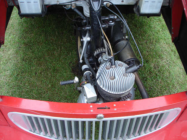 The single cylinder engine in the Bond Minicar. Photo taken by myself on 20 August 2006, Tatton Park, Cheshire, UK